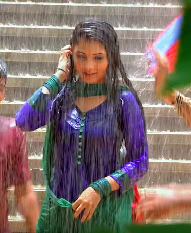 Indian lady